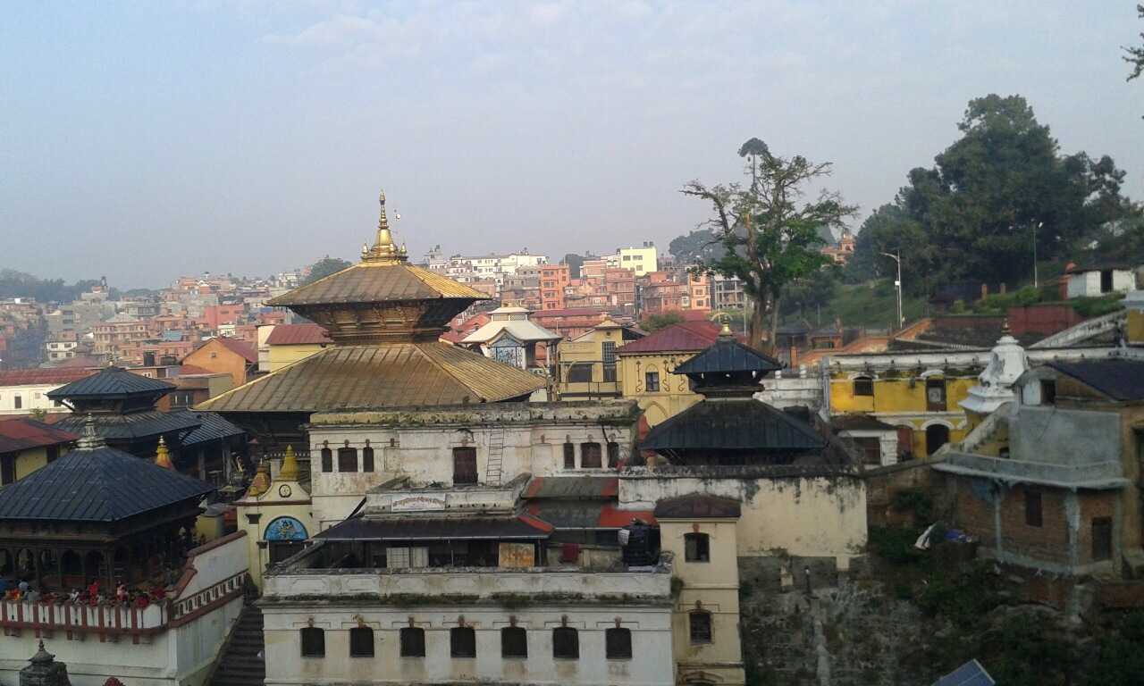 World Heritage Site, Pashupatinath Temple